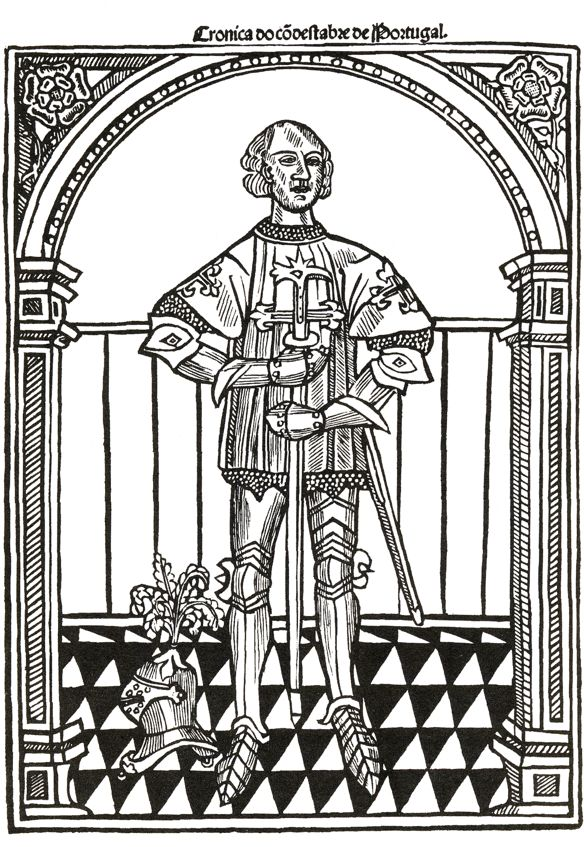 Engraving from a 16th-century chronicle showing constable Nuno Álvares Pereira